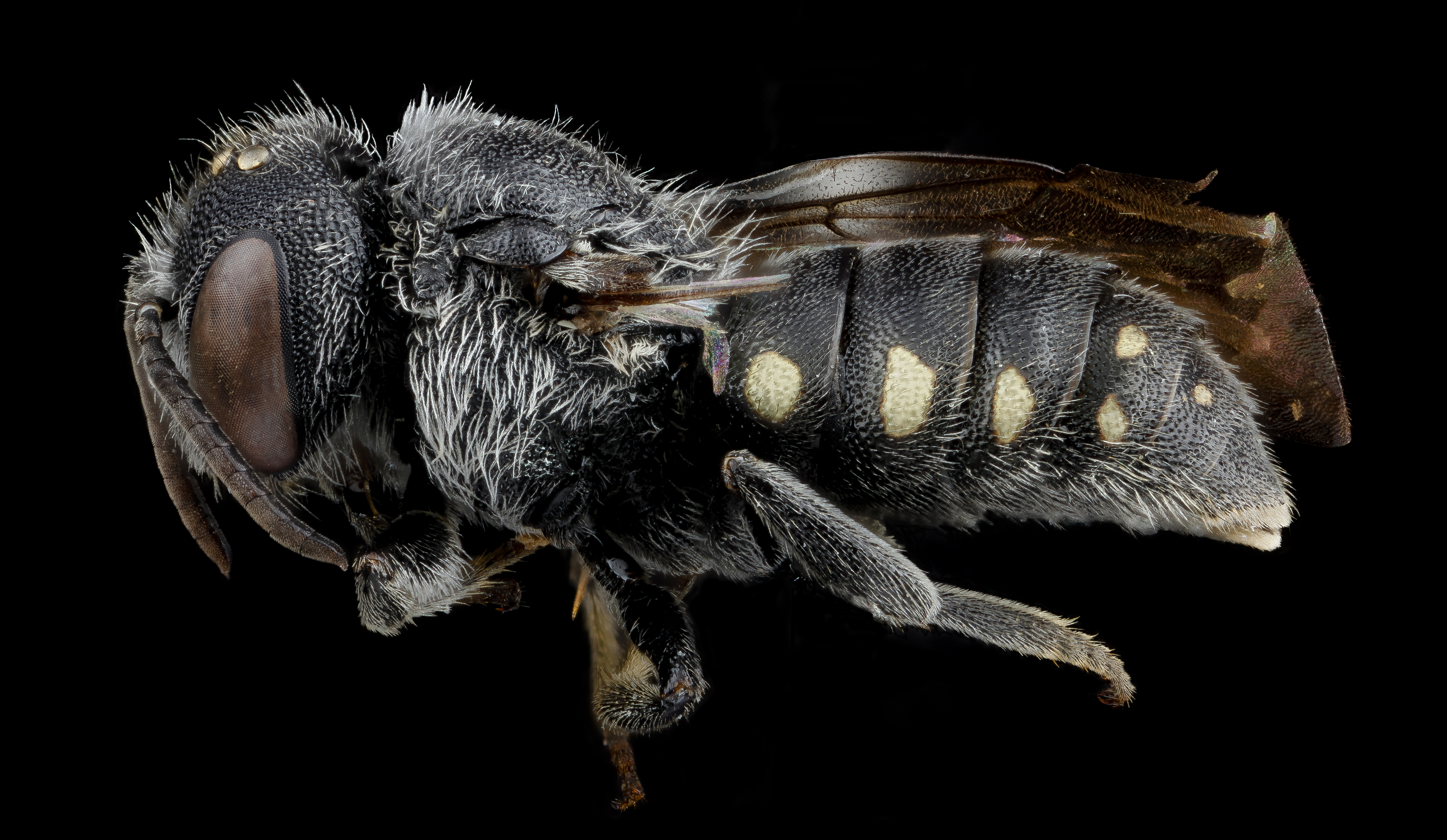 From Gateway National Recreation Area, is a little tiny parasitic be that Pearson sizes things like Osmia pumila. About 20 percent of all bees are nest parasites… Must be a fairly successful strategy. Photography by Kamren Jefferson and photo shopping by Dejen Mengus. 03:01, 11 April 2016 (UTC)03:01, 11 April 2016 (UTC) 0 03:01, 11 April 2016 (UTC)03:01, 11 April 2016 (UTC) All photographs are public domain, feel free to download and use as you wish. Photography Information: Canon Mark II 5D, Zerene Stacker, Stackshot Sled, 65mm Canon MP-E 1-5X macro lens, Twin Macro Flash in Styrofoam Cooler, F5.0, ISO 100, Shutter Speed 200 Beauty is truth, truth beauty - that is all Ye know on earth and all ye need to know " Ode on a Grecian Urn" John Keats You can also follow us on Instagram account USGSBIML Want some Useful Links to the Techniques We Use? Well now here you go Citizen: Art Photo Book: Bees: An Up-Close Look at Pollinators Around the World Basic USGSBIML set up: USGSBIML Photoshopping Technique: Note that we now have added using the burn tool at 50% opacity set to shadows to clean up the halos that bleed into the black background from "hot" color sections of the picture. PDF of Basic USGSBIML Photography Set Up: ftp://ftpext.usgs.gov/pub/er/md/laurel/Droege/How%20to%20Take%20MacroPhotographs%20of%20Insects%20BIML%20Lab2.pdf Google Hangout Demonstration of Techniques: or Excellent Technical Form on Stacking: Contact information: Sam Droege 301 497 5840